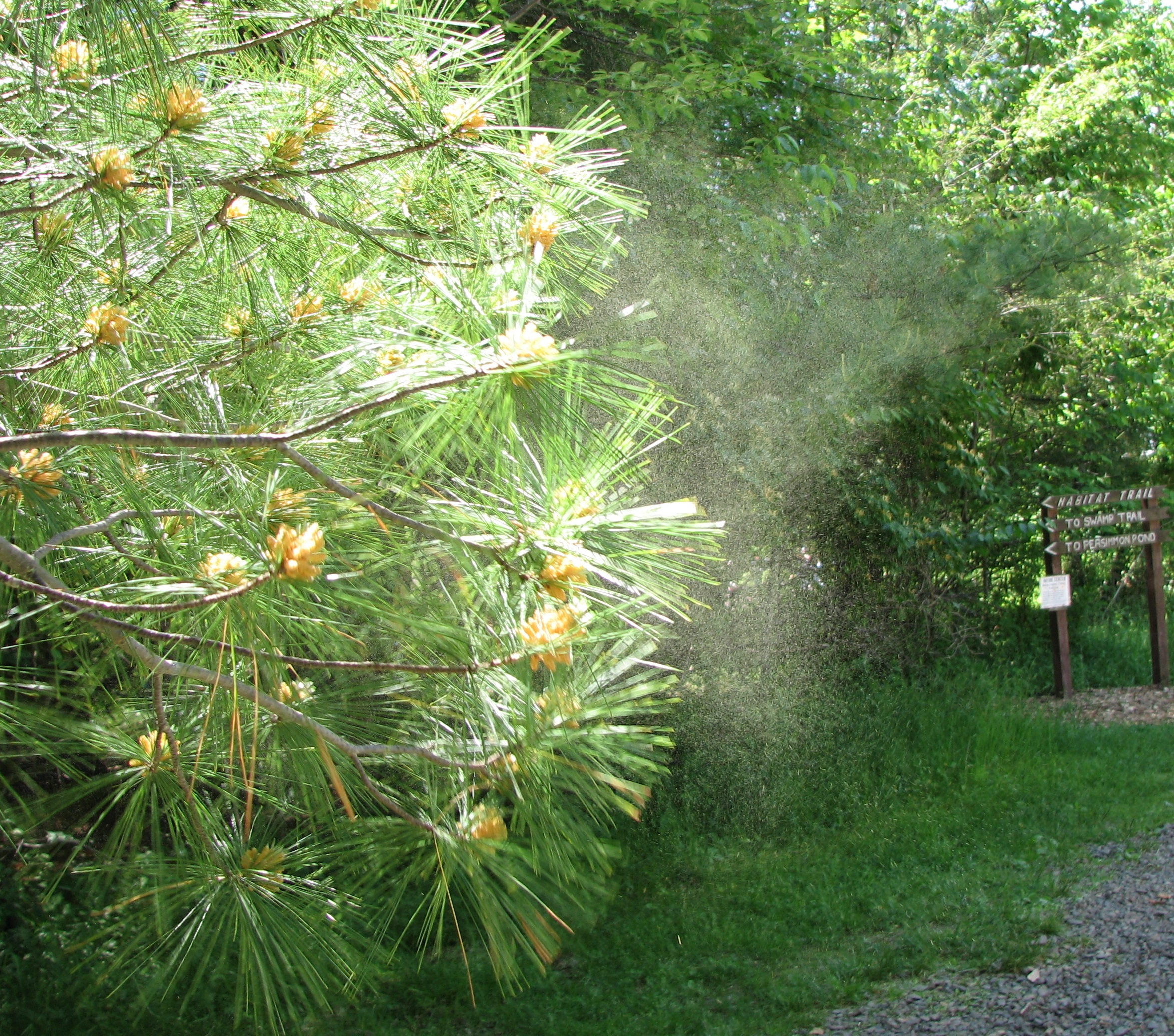 Wind pollination, Pine tree. Peace Valley Nature Center. PA, USA